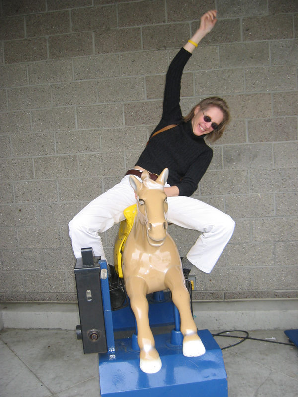 Mary Roach riding a horse